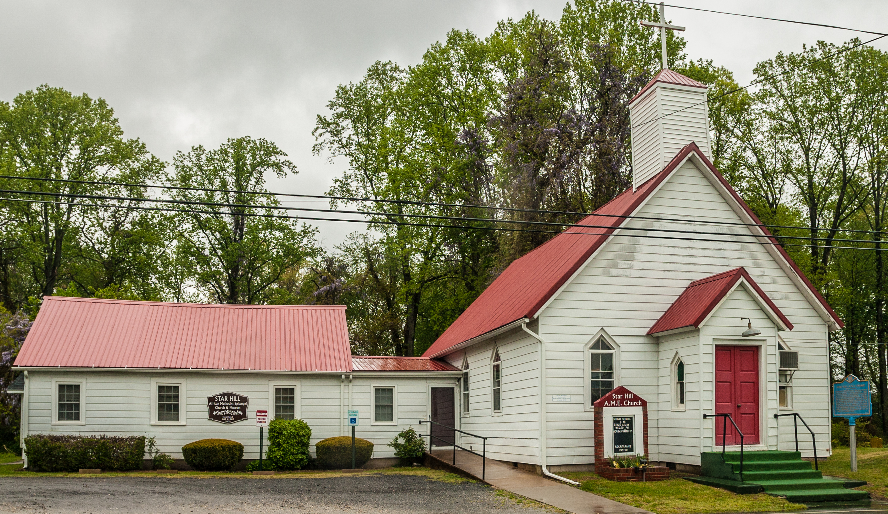 Starr Hill AME Church_0325